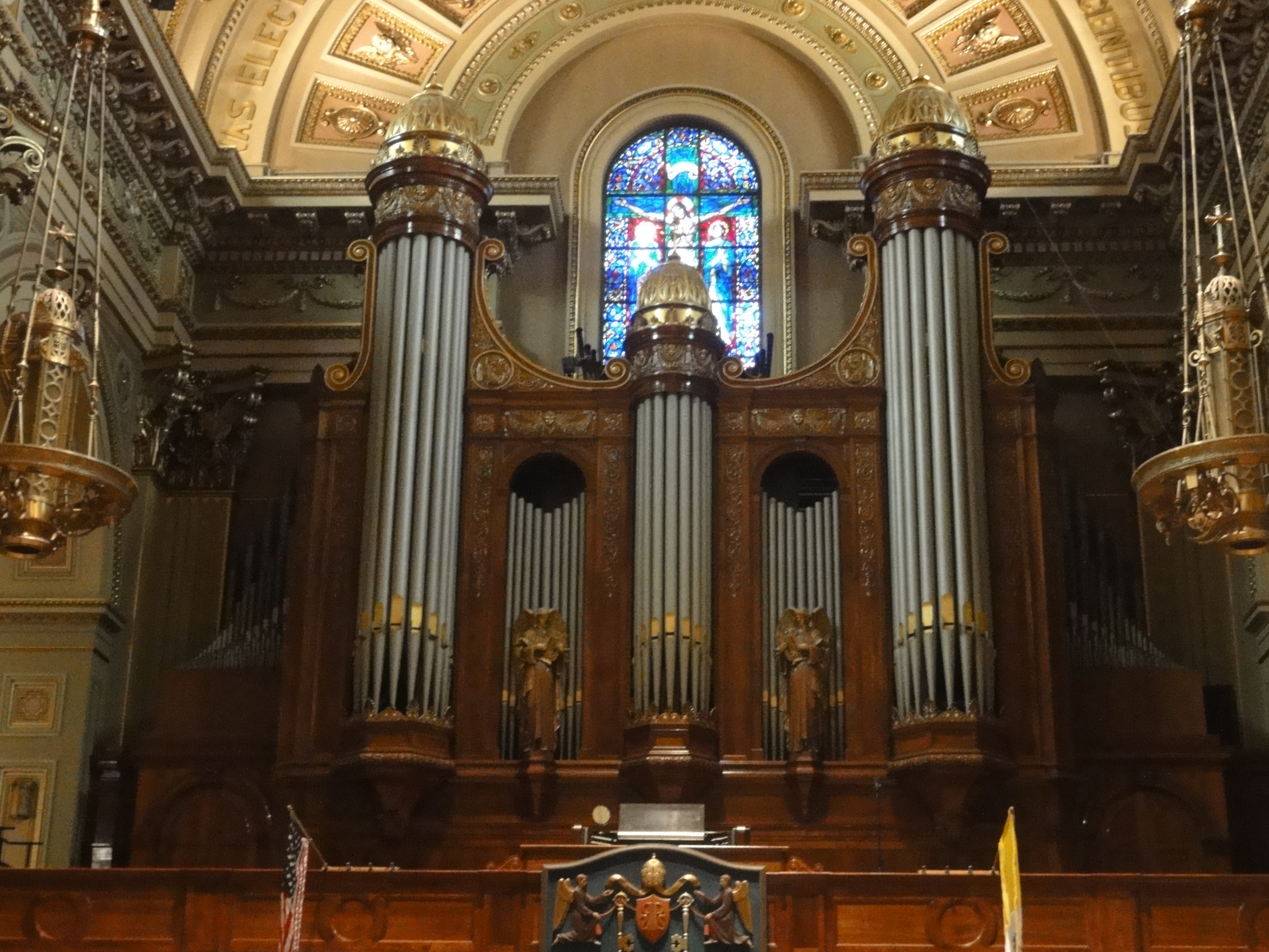 Cathedral of Saints Peter and Paul